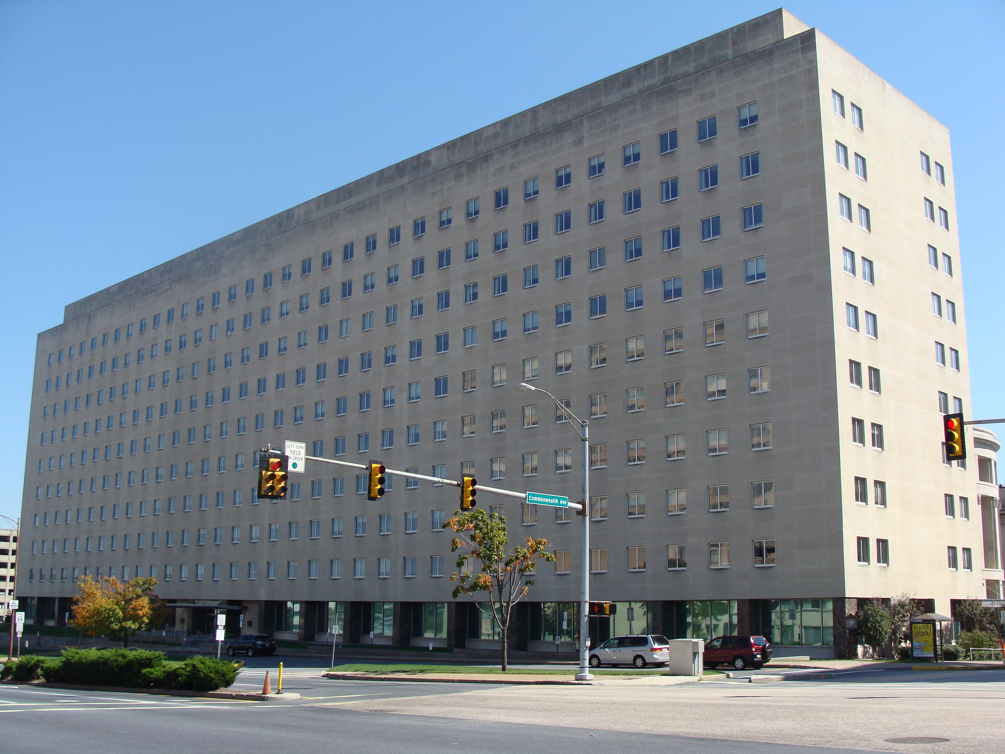 The Health and Welfare Building in Harrisburg, Pennsylvania. It is a part of the Pennsylvania State Capitol Complex.